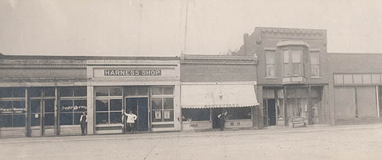 Ambia, Store Front with the Post Office, Old Harness Shop, Barber Shop, and Millinery Shop. Courtesy of Oscar Dale Ross. From the Indiana State Library.